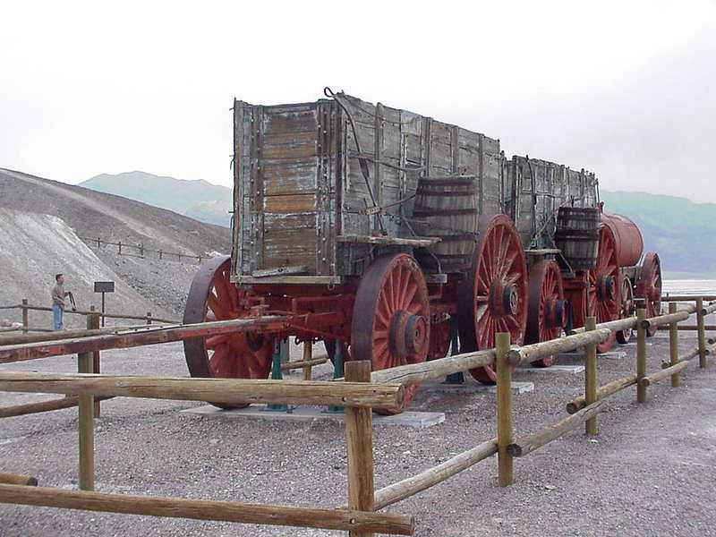 Death Valley, California - This is one of the "20 mule team" wagons. You might want to go see this sometime soon. It looked like it was about to fall apart.